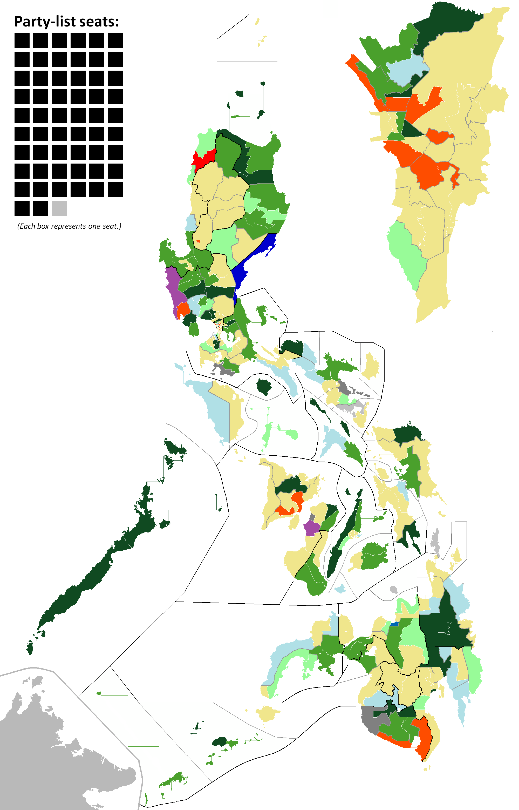 Current party standings in the 15th Congress of the Philippines.